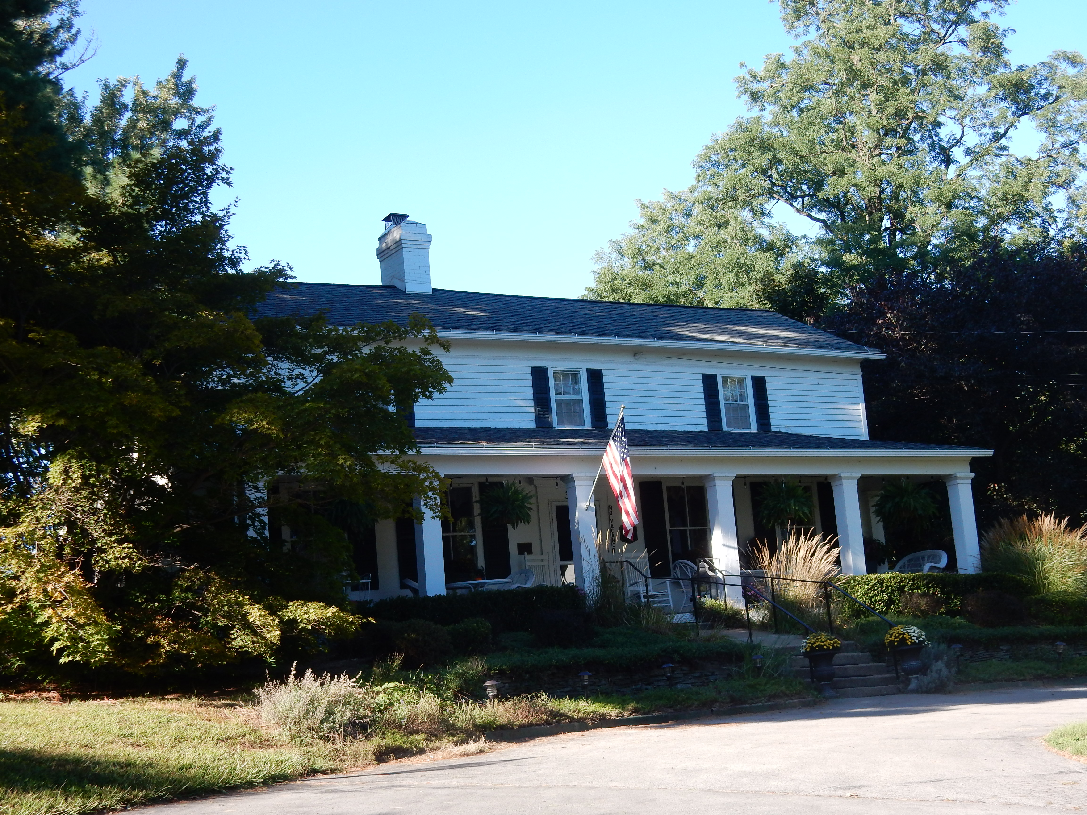 Charles Wagener House locates on 351 Elm St., Penn Yan, Yates County, New York.